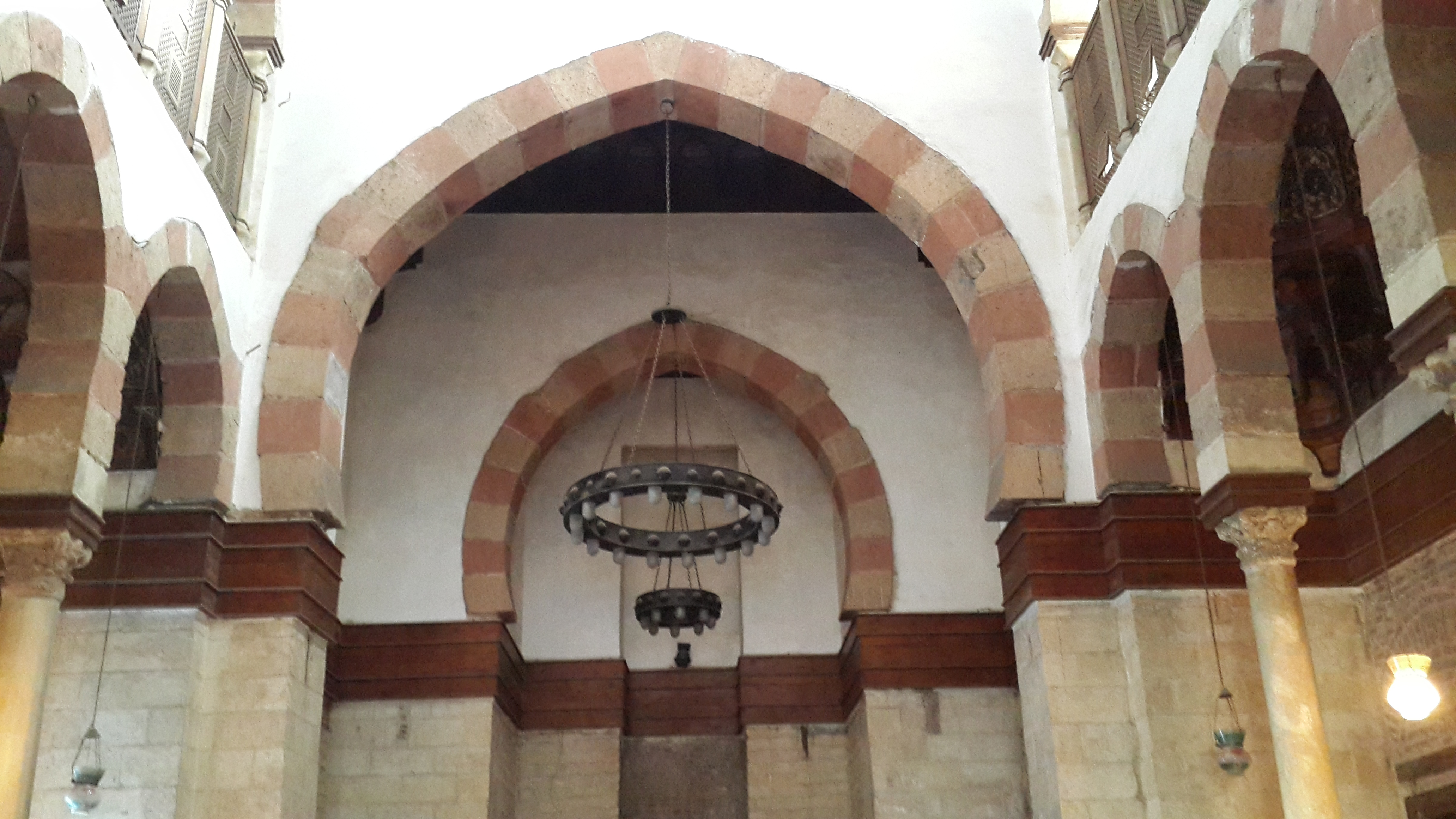 "Qa'a"or "Reception Hall" at Beshtak Palace by Ehsan O. Raslan